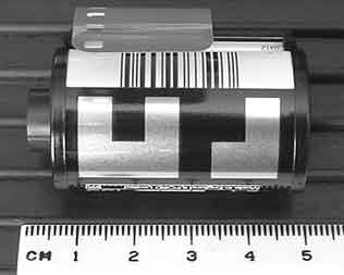 DX CAS code on a 135 film cartridge. This code means ISO 125.